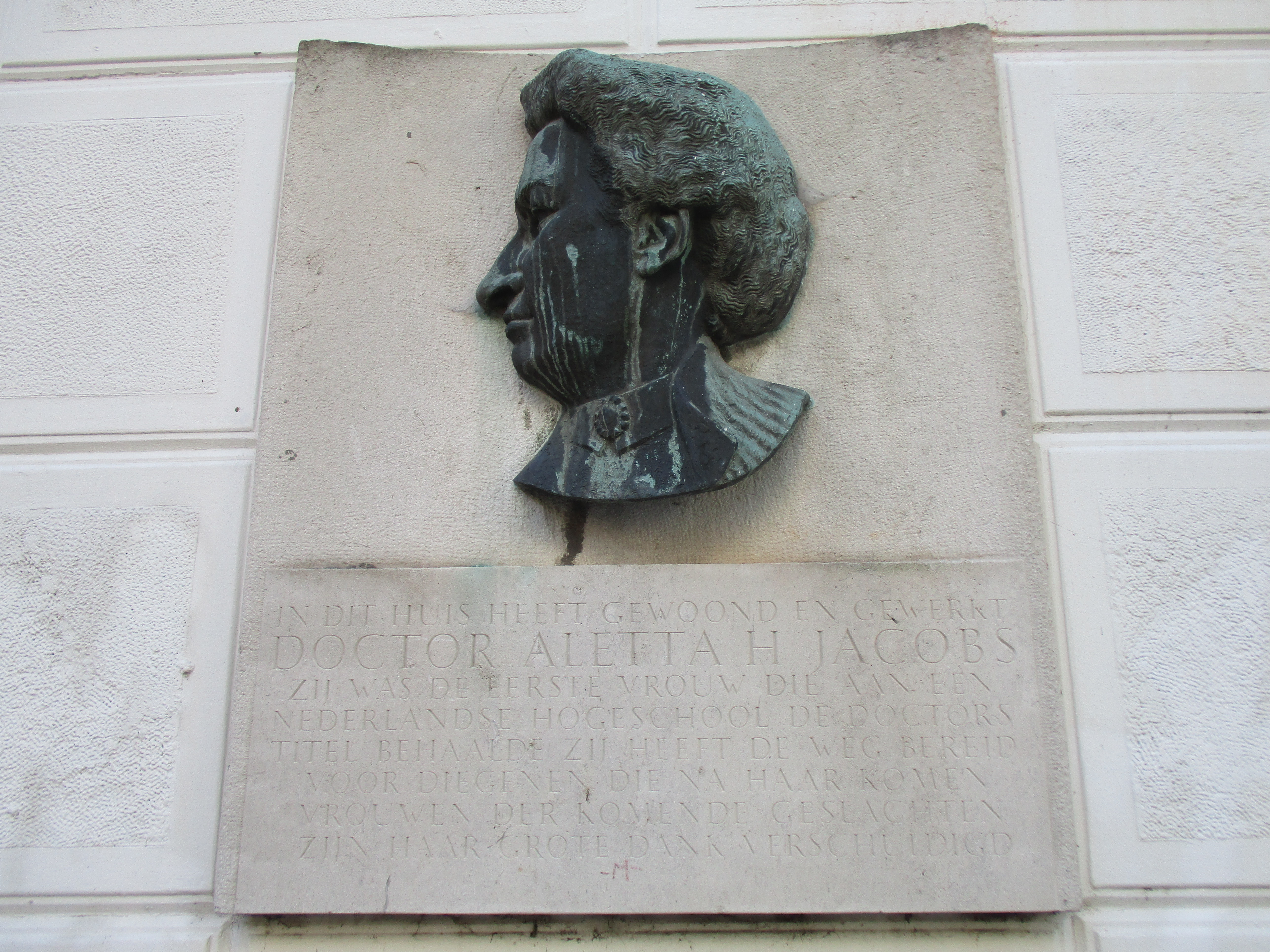 Commemorative plaque honouring Aletta H. Jacobs (1854-1929), first Dutch female to complete a university degree (medical doctor), birth control activist, feminist and pacifist. She introduced the diaphragm as a contraceptive method.